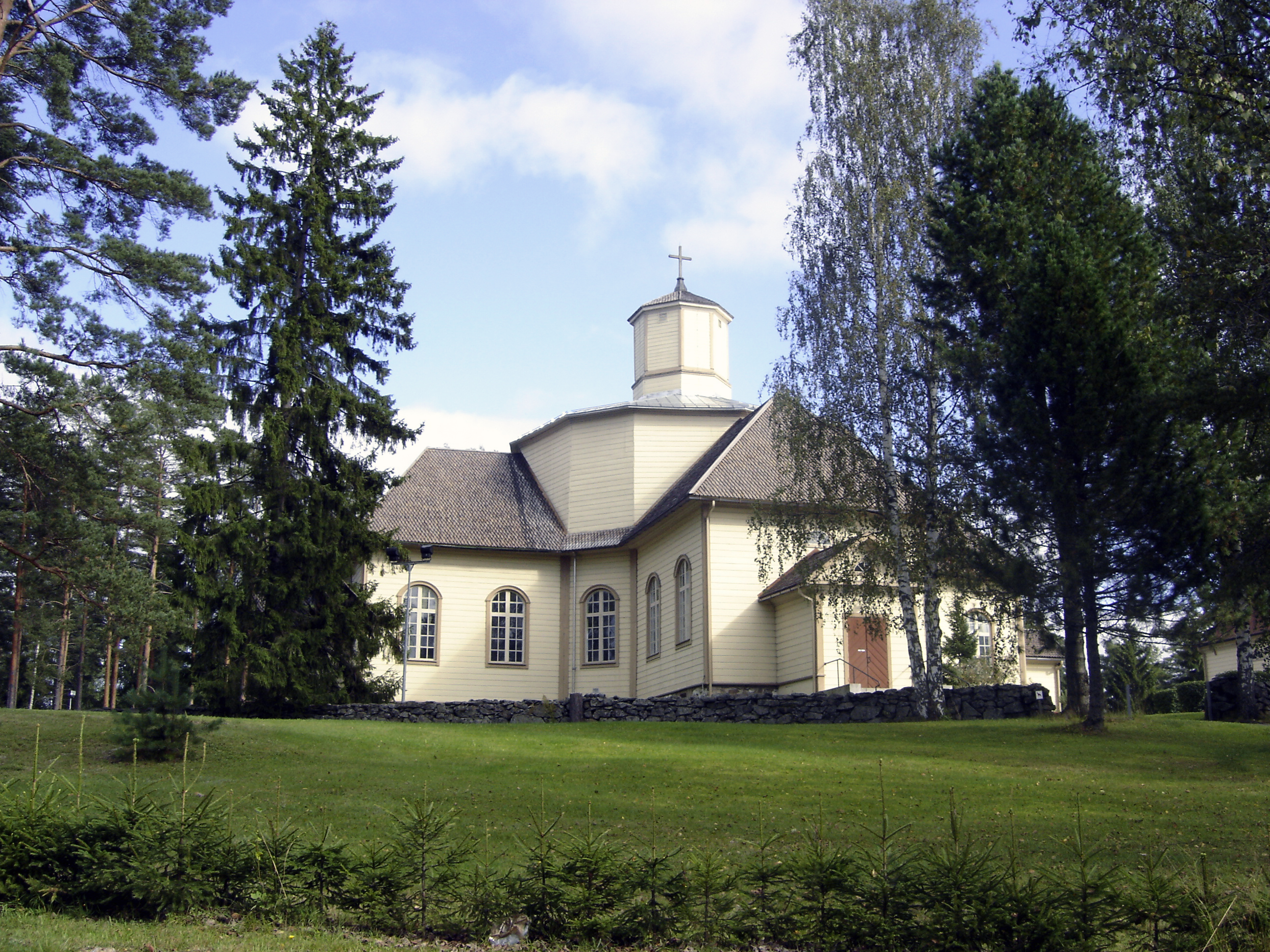 Joutsa Church in Joutsa, Finland. Completed in 1813.